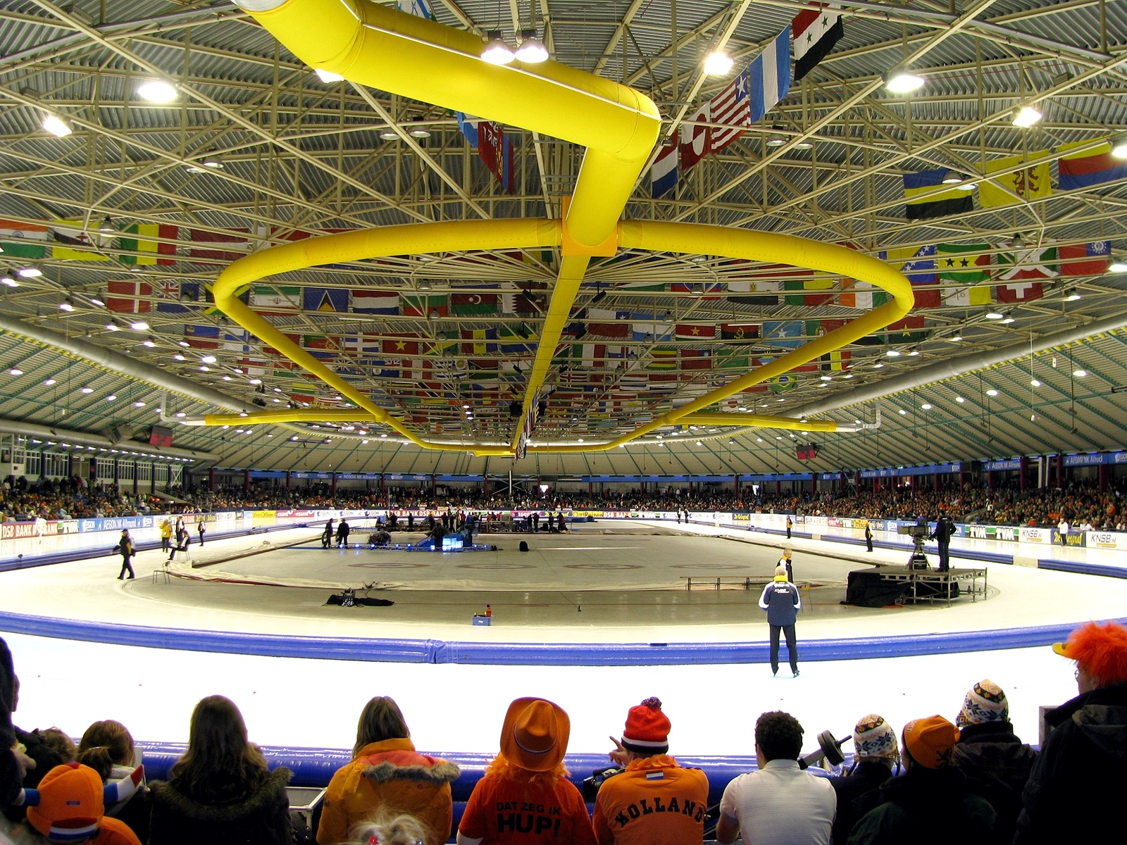 Thialf speed skating rink in Heerenveen, The Netherlands at 2009 Dutch Allround Speed Skating Championship